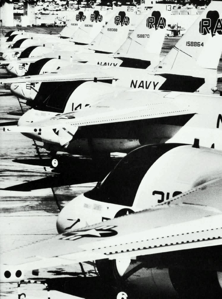 Lockheed S-3A Vikings of U.S. Navy fleet readiness squadron VS-41 Shamrocks on the flight line at Naval Air Station North Island, California (USA), in 1982.